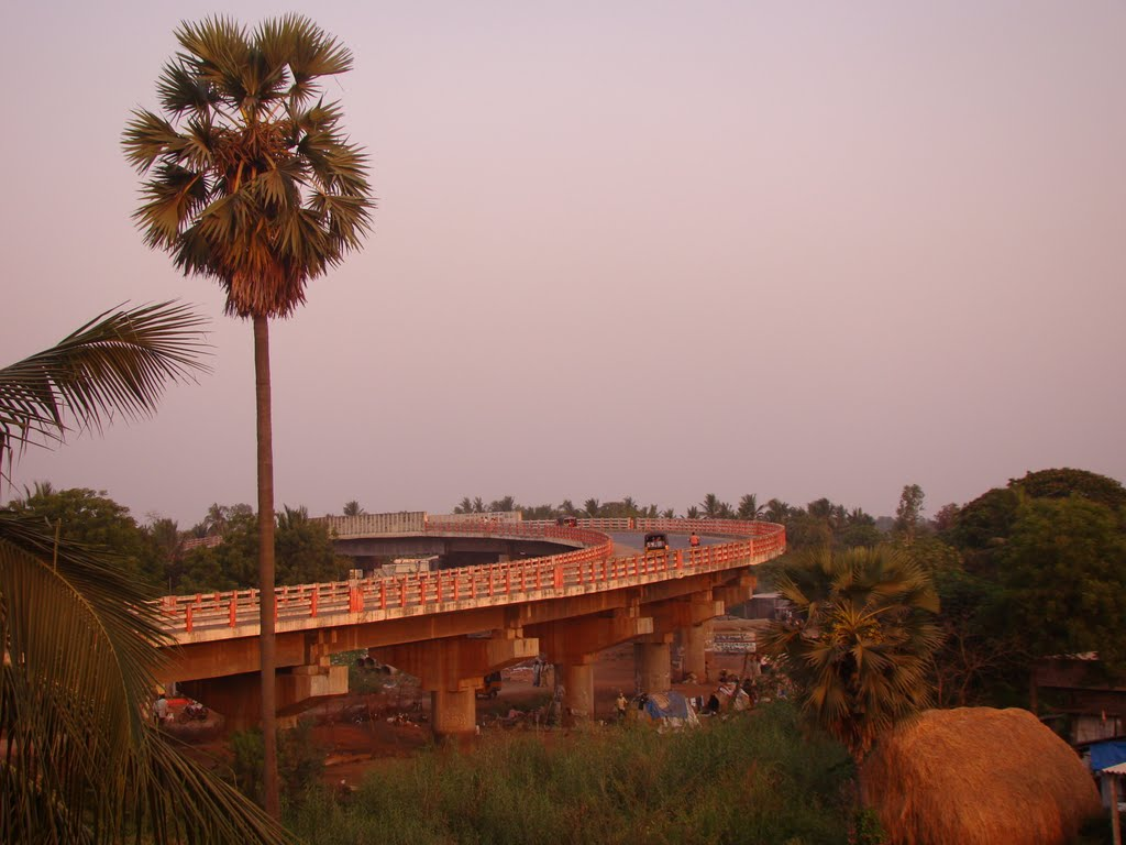 Over bridge of Pedavadlapudi